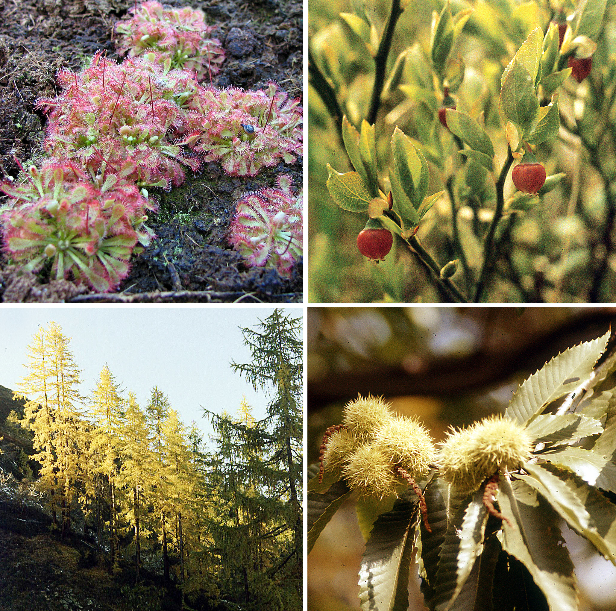 Acidophilic plants: Drosera sp., Vaccinium sp., Larix decidua, and Castanea sativa